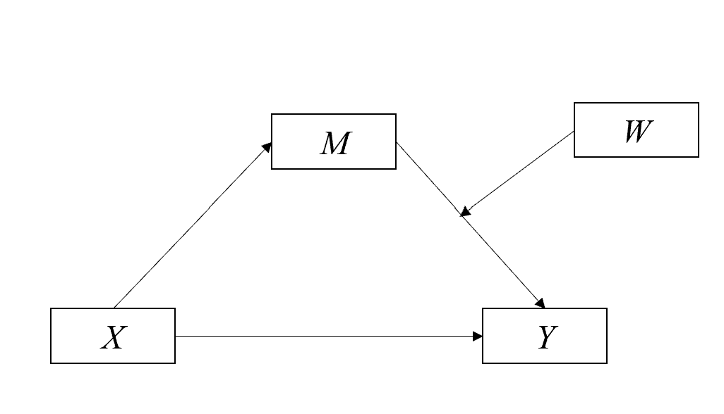 This model represents that the moderator operates the relationship between the mediator and dependent variable.X represents the independent variable. Y represents the dependent variable. M represents the mediator. W represents the moderator.